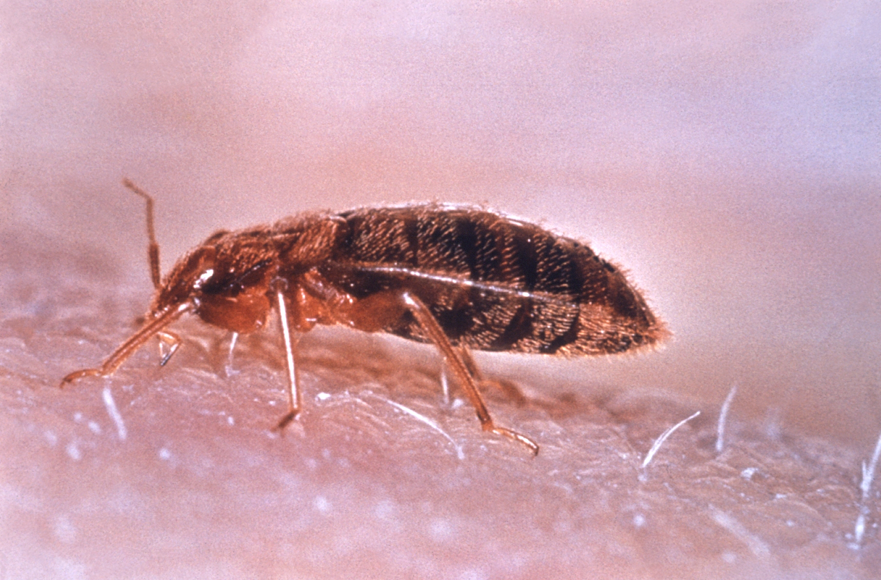 Bedbug